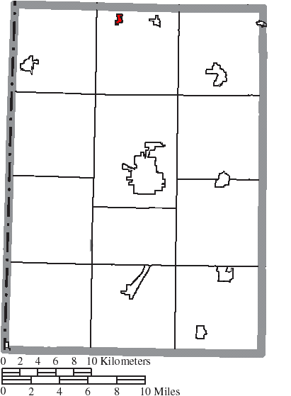 Map of the municipal and township boundaries of Preble County, Ohio, United States, as of the 2000 census, with the location of the village of Eldorado highlighted. Township borders are shown only in unincorporated areas in order to differentiate incorporated and unincorporated areas more clearly.